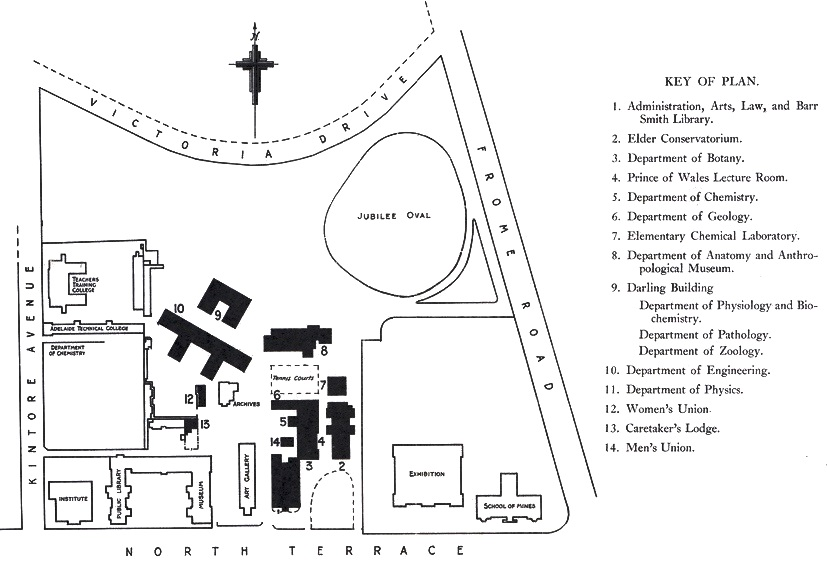 Layout of buildings in the area bounded by North Terrace, Frome Road, Victoria Drive and Kintore Avenue, Adelaide. Includes University, School of Mines, Museum, Art Gallery.